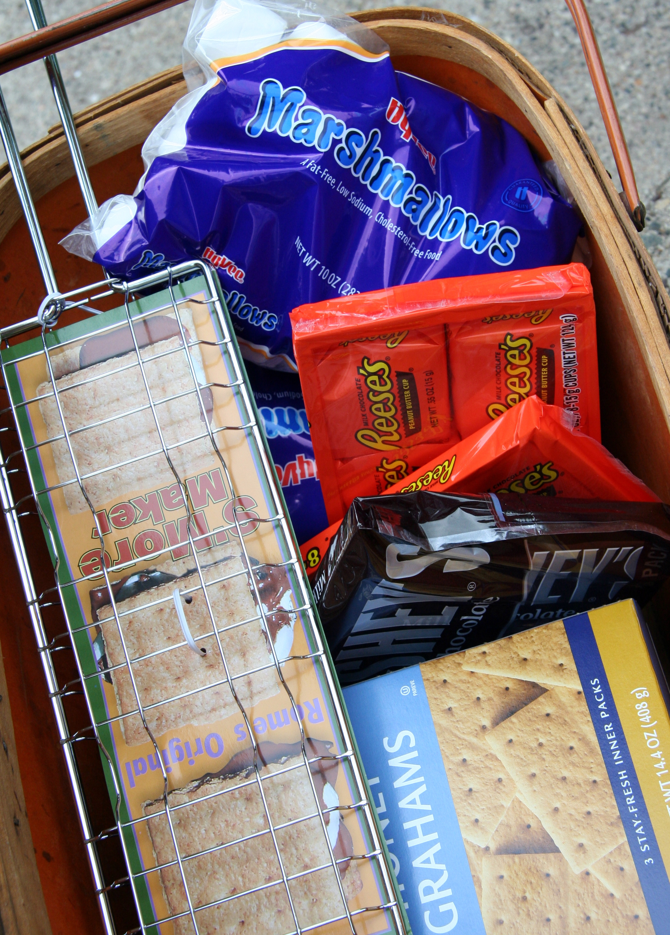 A picnic basket filled with supplies for making s'mores